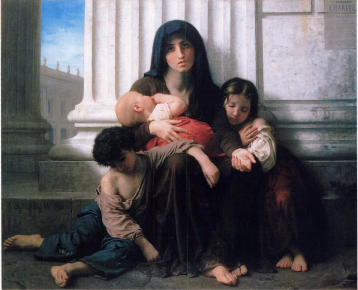 A woman with three children huddled in front of the church of the Madeleine in Paris.